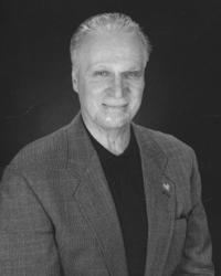 Capt. George A Burk, author of 4 books and sole survivor of a USAF aviation accident